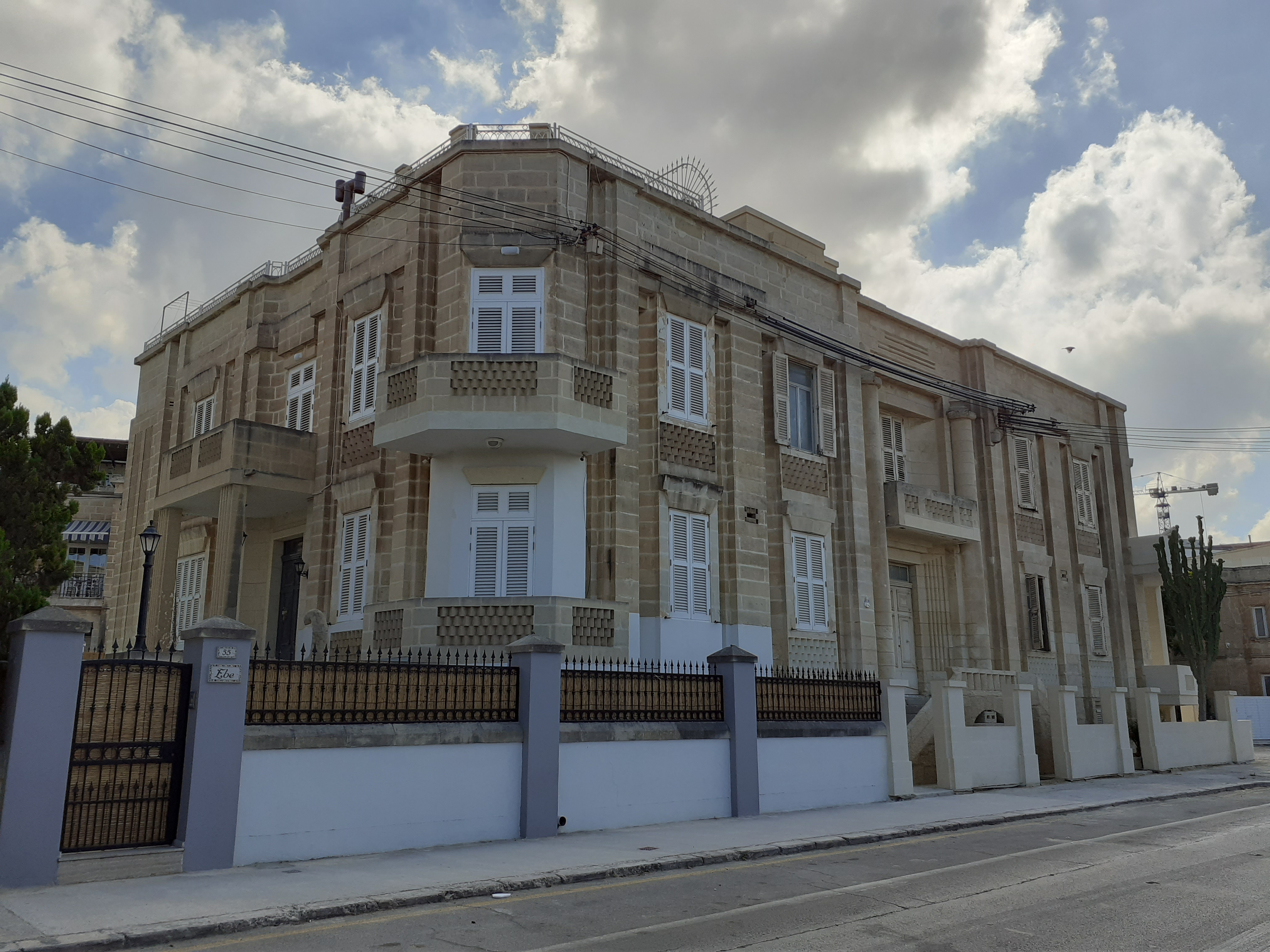 No. 55, ix-Xatt Ta' Xbiex (Villa Ebe)